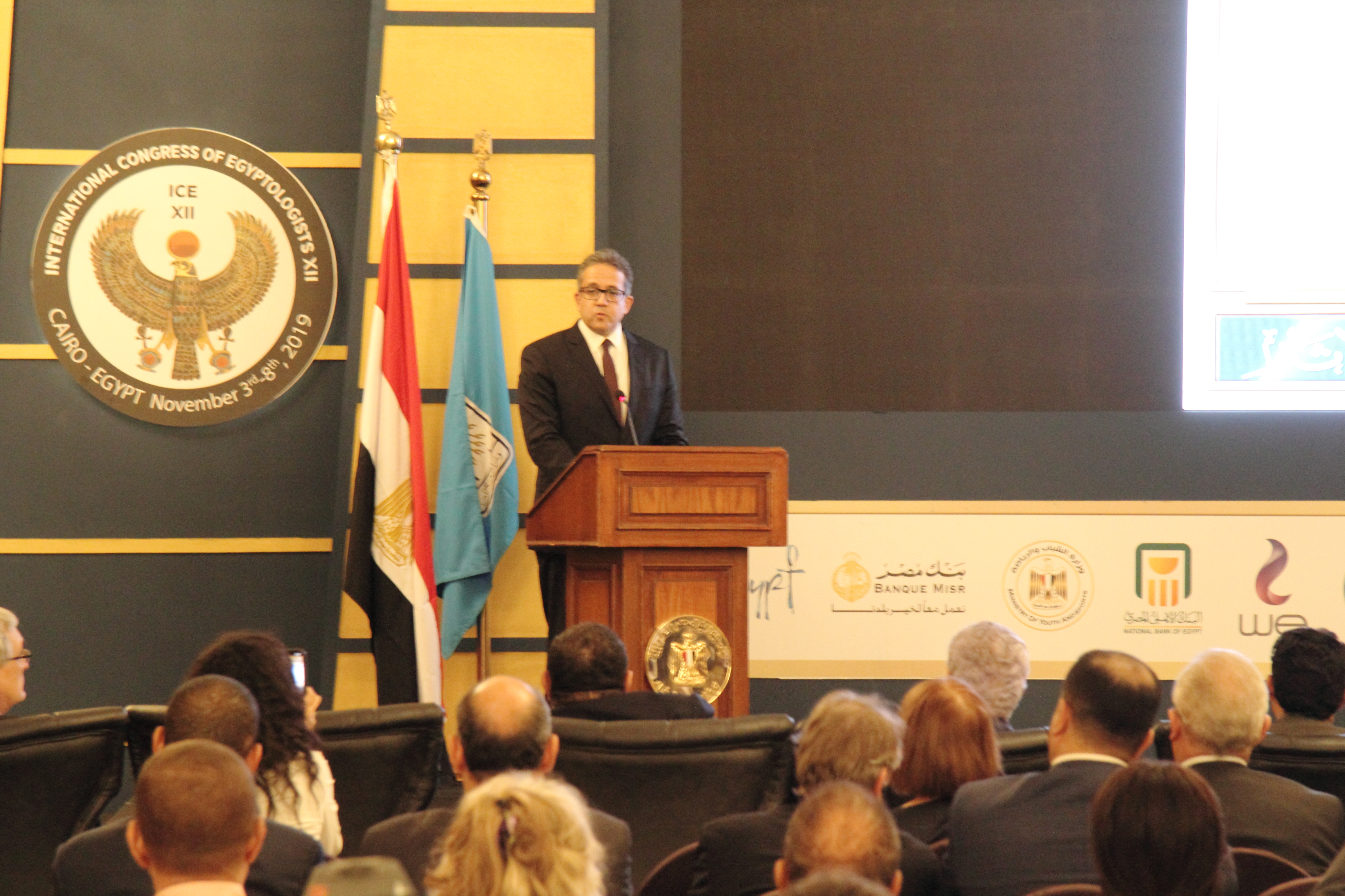 Cairo, Egypt: International Congress of Egyptologists (ICE) XII, organized by the International Association of Egyptologists in November 2019